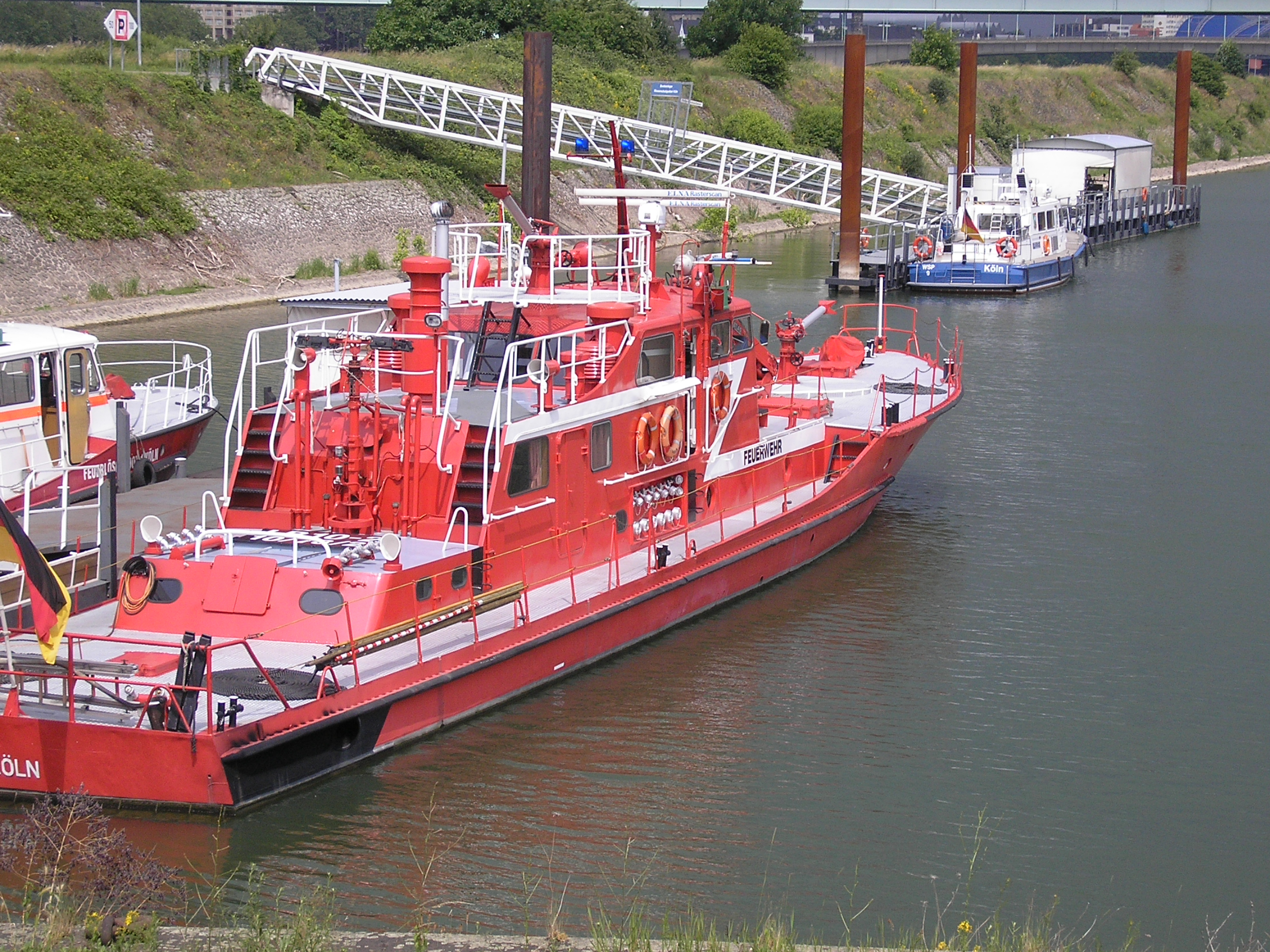 Police and Firebrigade on the river Rhine, Cologne-Deutz